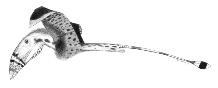 Pterosaur Dimorphodon macronyx.